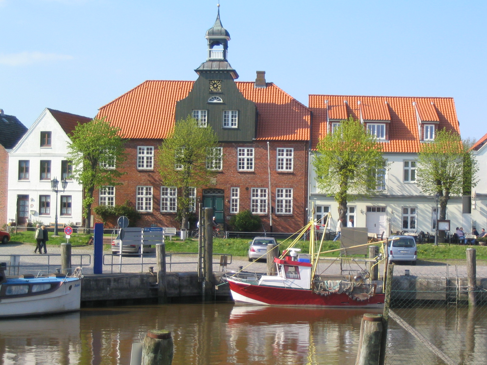 Schifferhaus (Sailor's house) Tönning